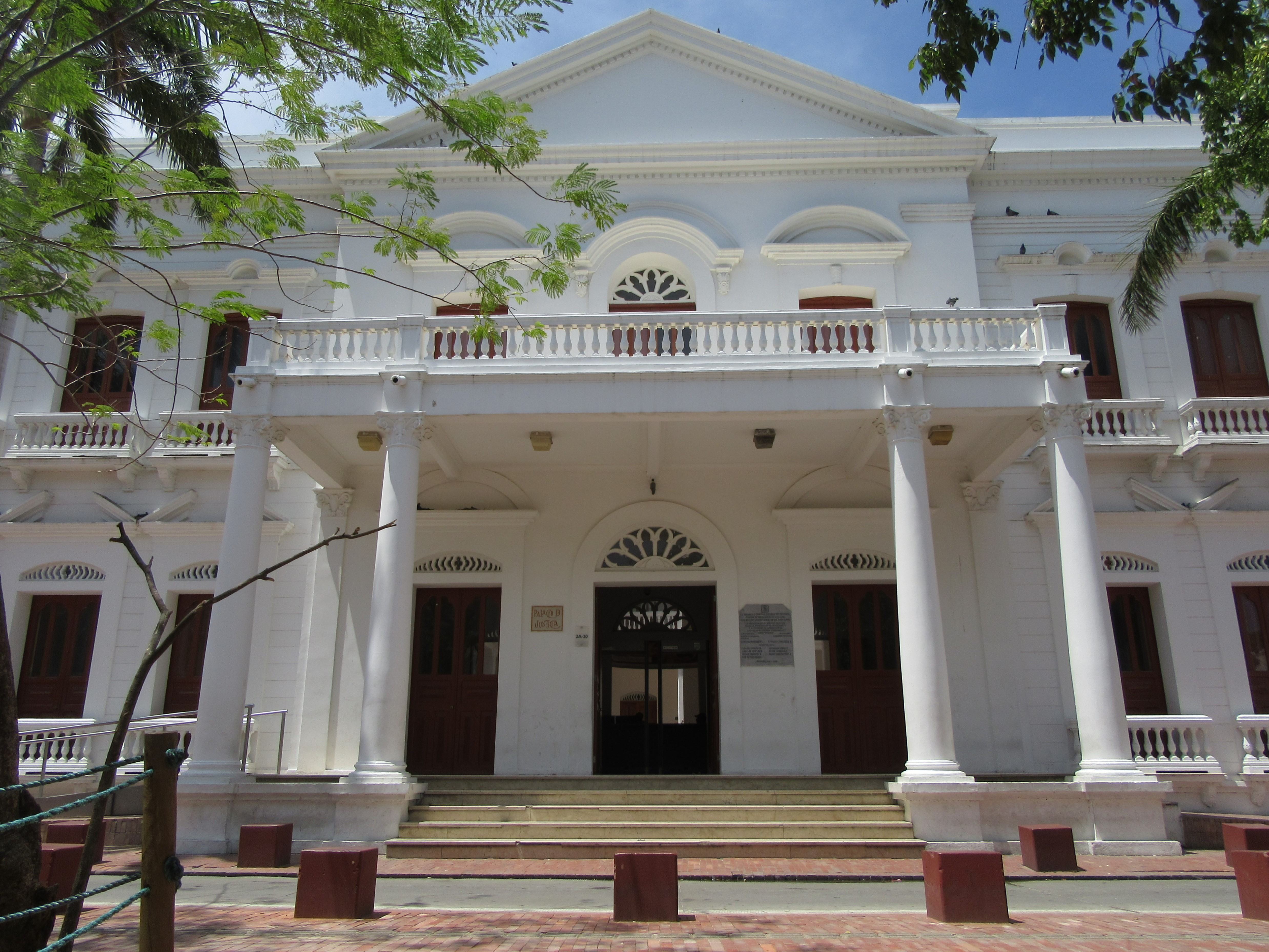 Santa Marta